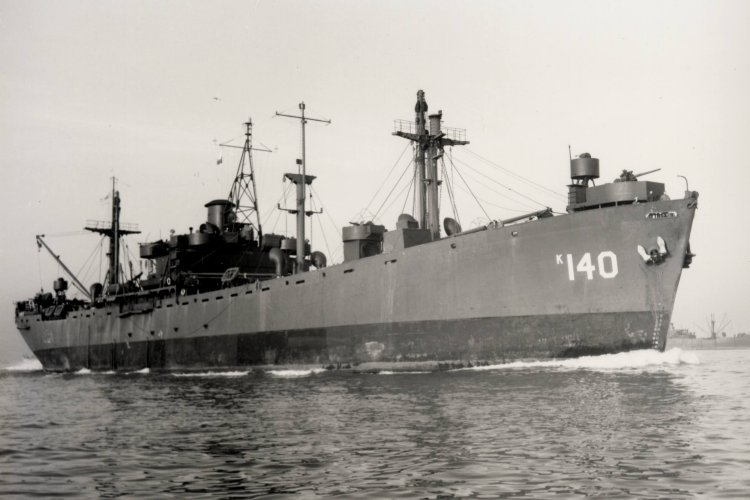 USS Situla (AK-140), a Liberty ship commissioned into the US Navy, seen here in San Francisco Bay in 1945